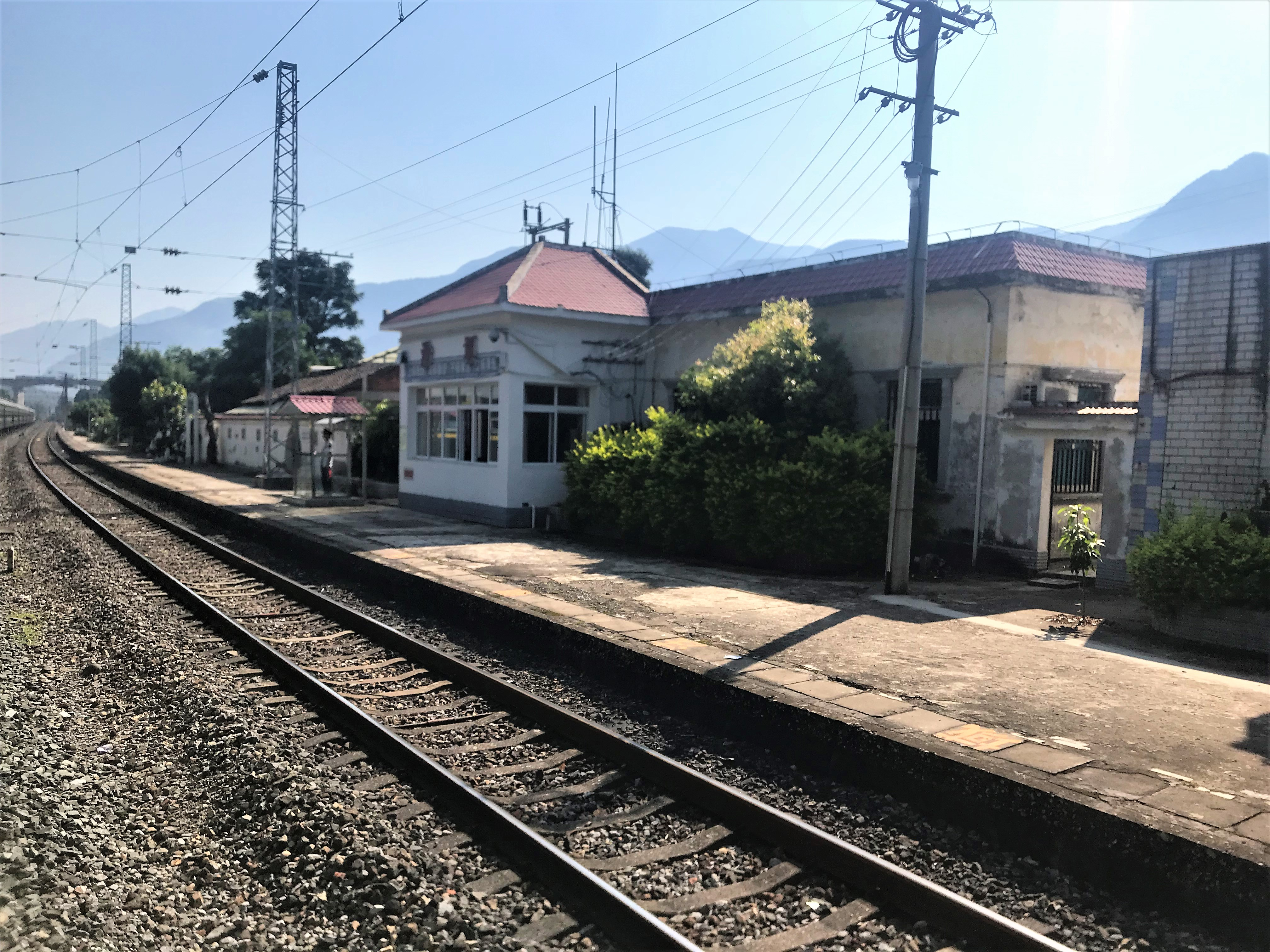 201908 Station Building of Shaba